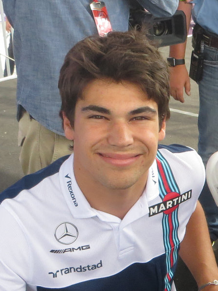 Lance Stroll on autograph stage 2017 Azerbaijan GP